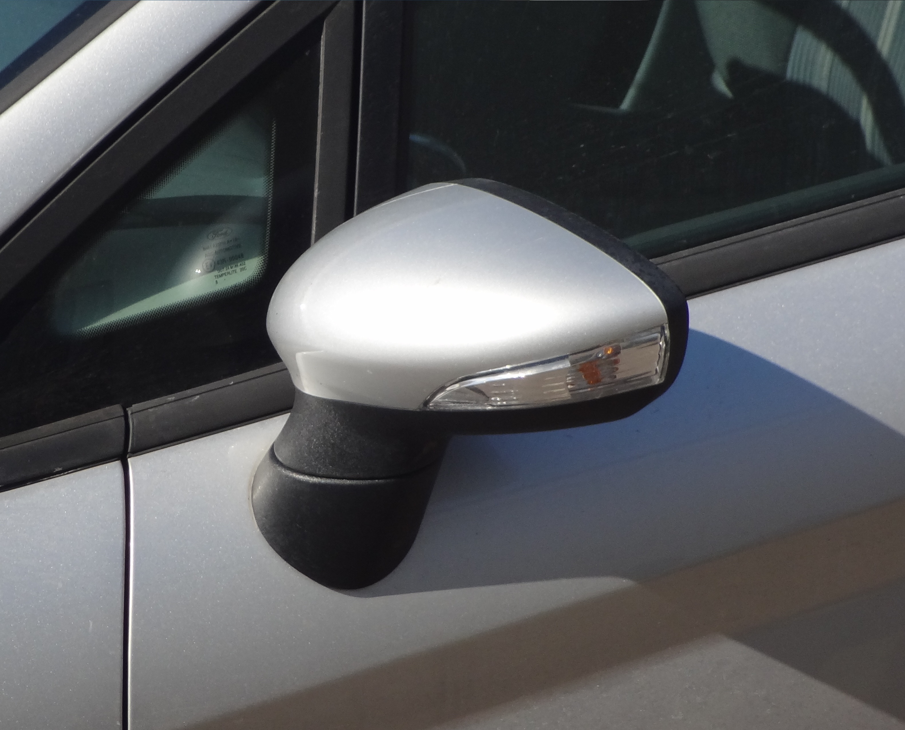 Wing mirror with indicator light